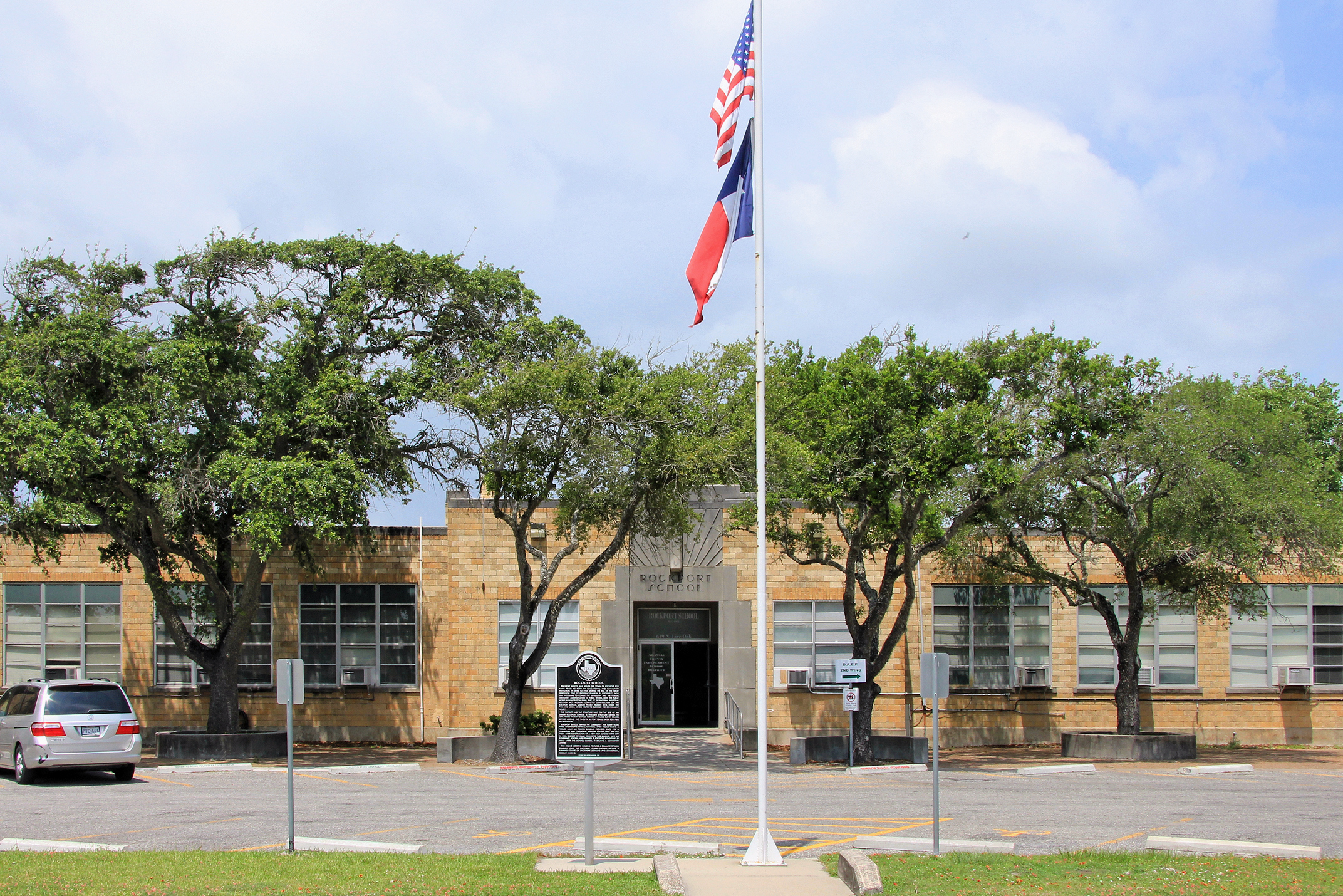 Former Rockport School. The old Rockport School was designated a Recorded Texas Historic Landmark in 2006.